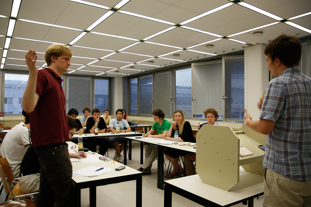 Final of the Vienna Debate Workshop practice tournament. The debate is held in British Parliamentary Style. Currently speaking at the lectern on the right is the Prime Minister. The Prime Minister is the first speaker in a debate. The Leader of the Opposition (left) raises a Point of Information. The other debaters sit at the desks in front, at the desks in back are the adjudicators and the audience behing them. The debate takes place in a lecture room in the Vienna University of Economics and Business Original photo by Stefan Zweiker; Editing by Jakob Reiter.